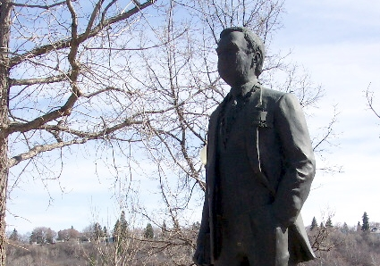 Statue of Ramon John Hnatyshyn, Governor General of Canada, on the banks of the South Saskatchewan River in Saskatoon, Canada.